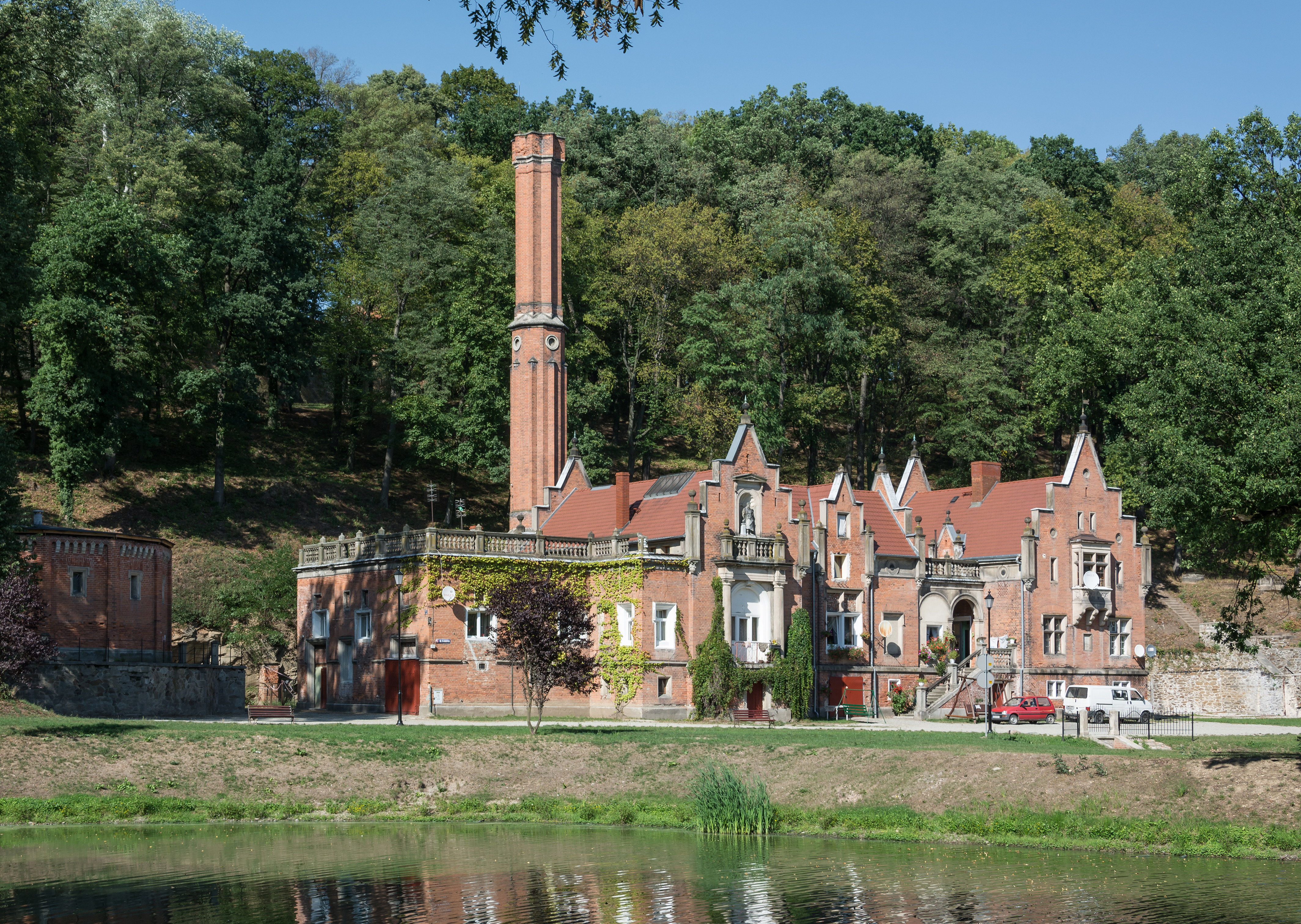 Heating plant in Kamieniec Ząbkowicki